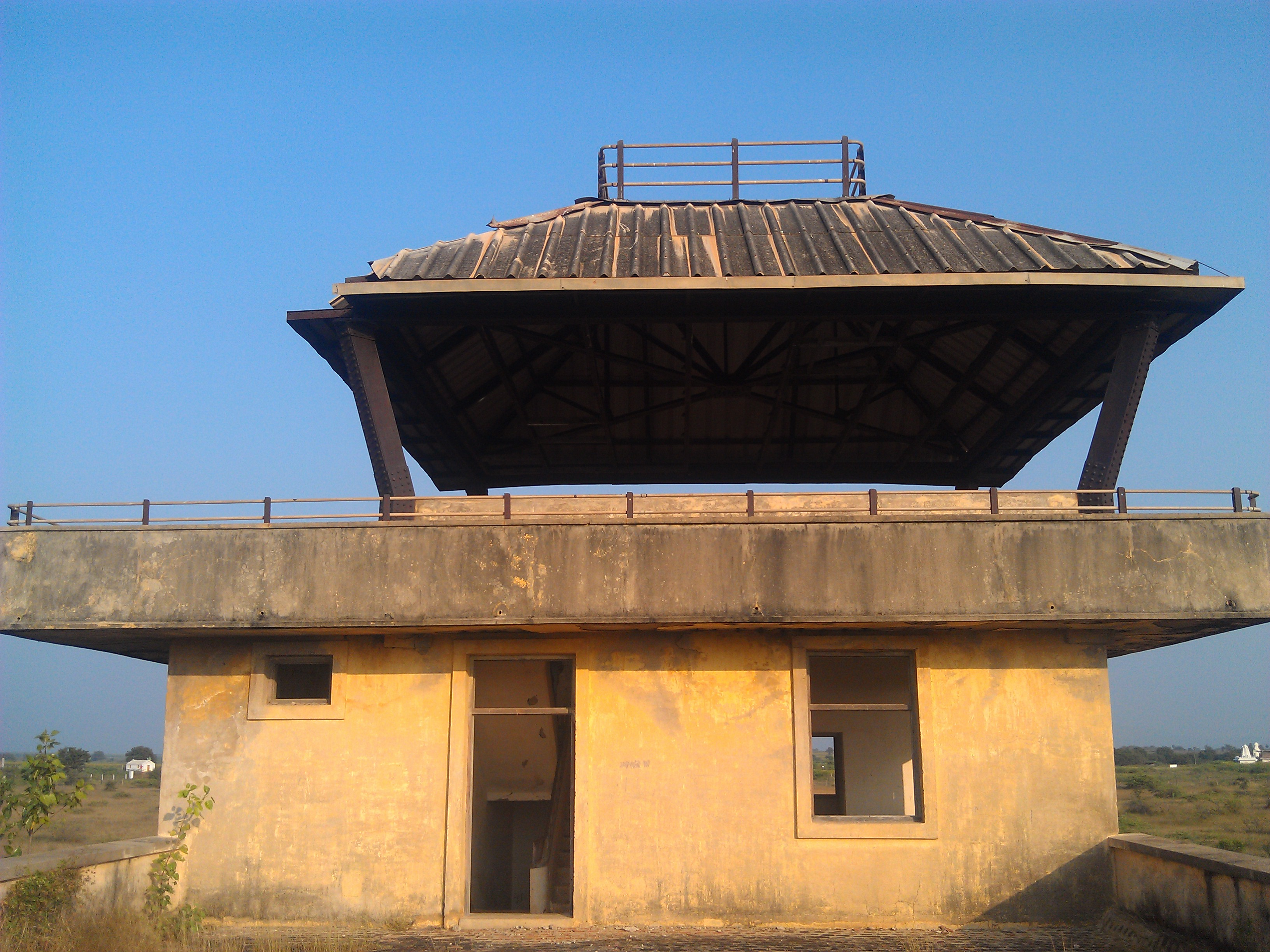 Donakonda Airport